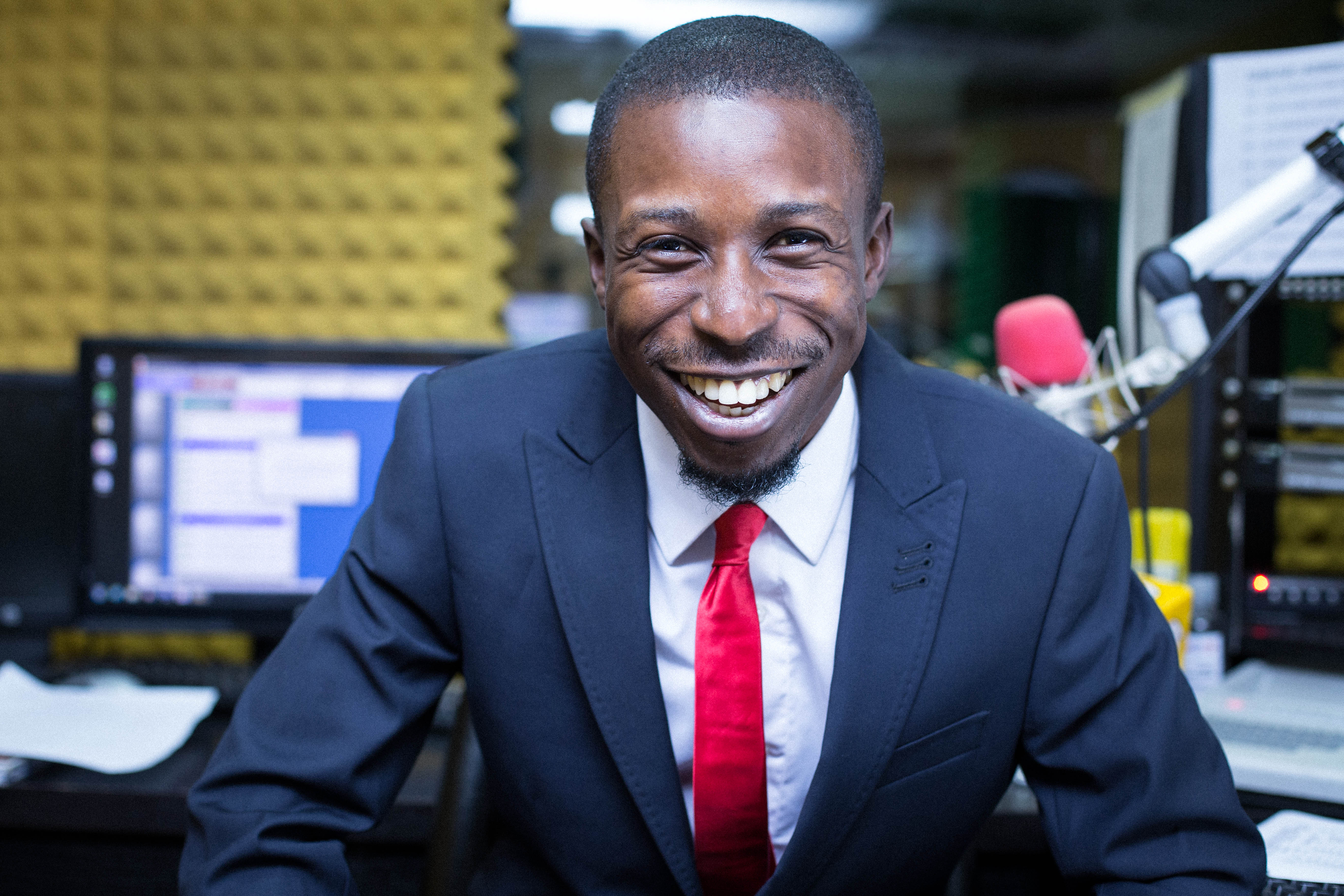 Live Studio Photo Session on Nigeria Info Abuja